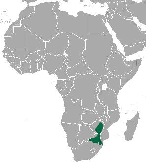 Lesser Gray-brown Musk Shrew (Crocidura silacea) range